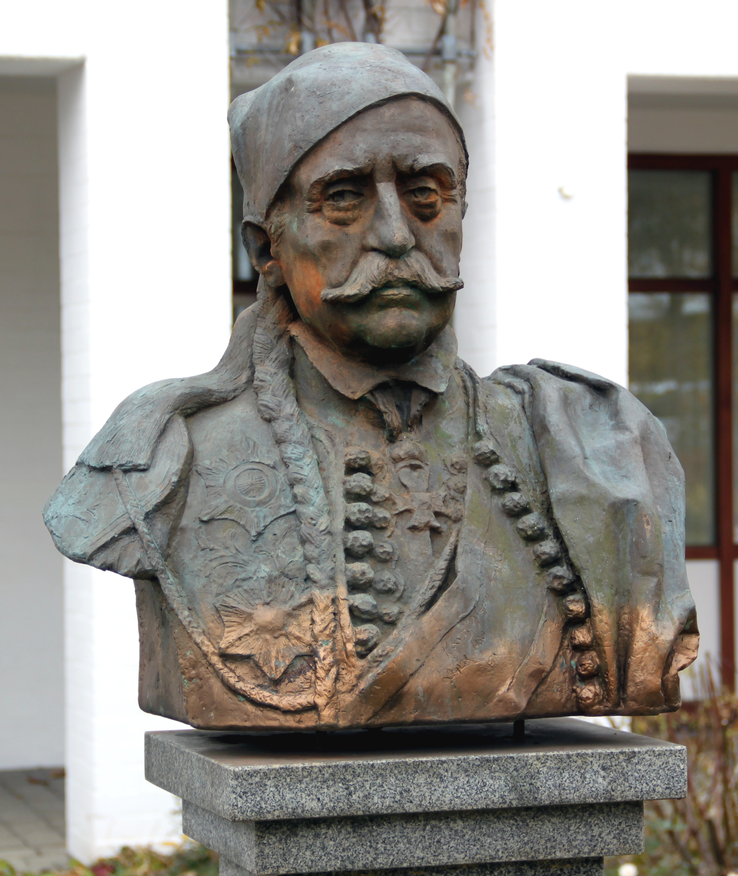 Dimitris Plapoutas bust in the Garden of Sculptures on the Denkmalsplatz behind the Ottobrunn town-hall (Germany). In 1832/3 Plapoutas had accompanied crown-prince Otto von Wittelsbach (subsequently King Otto of Greece) on his journey to Nafplion (Greece). The bronze bust is a gift by Plapoutas's great-great-grandson to Nafplion's twin-municipality of Ottobrunn.